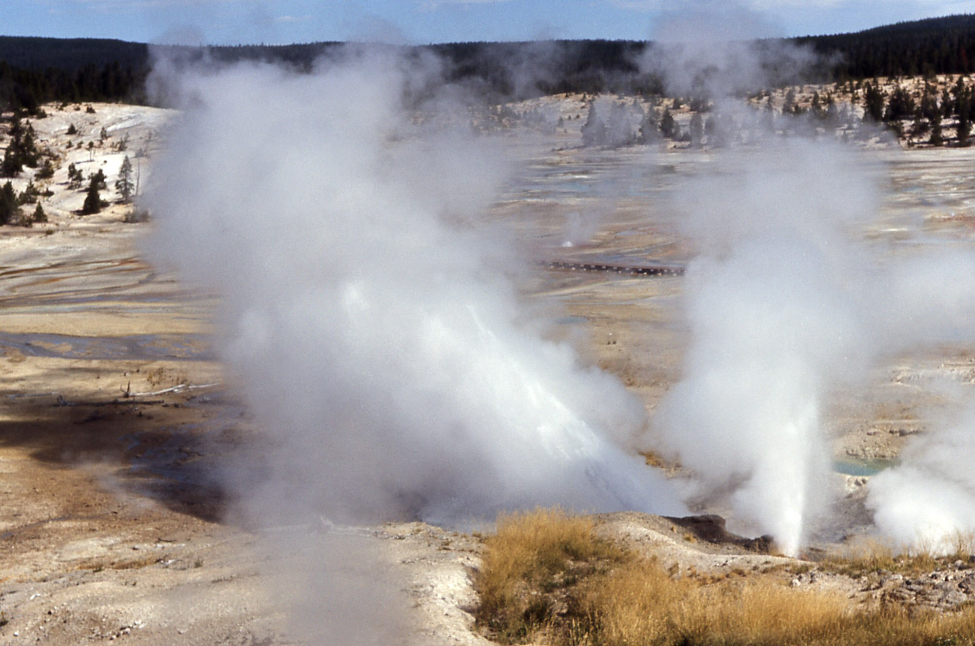 Ledge Geyser, Norris Geyser Basin, Yellowstone National Park, Wyoming